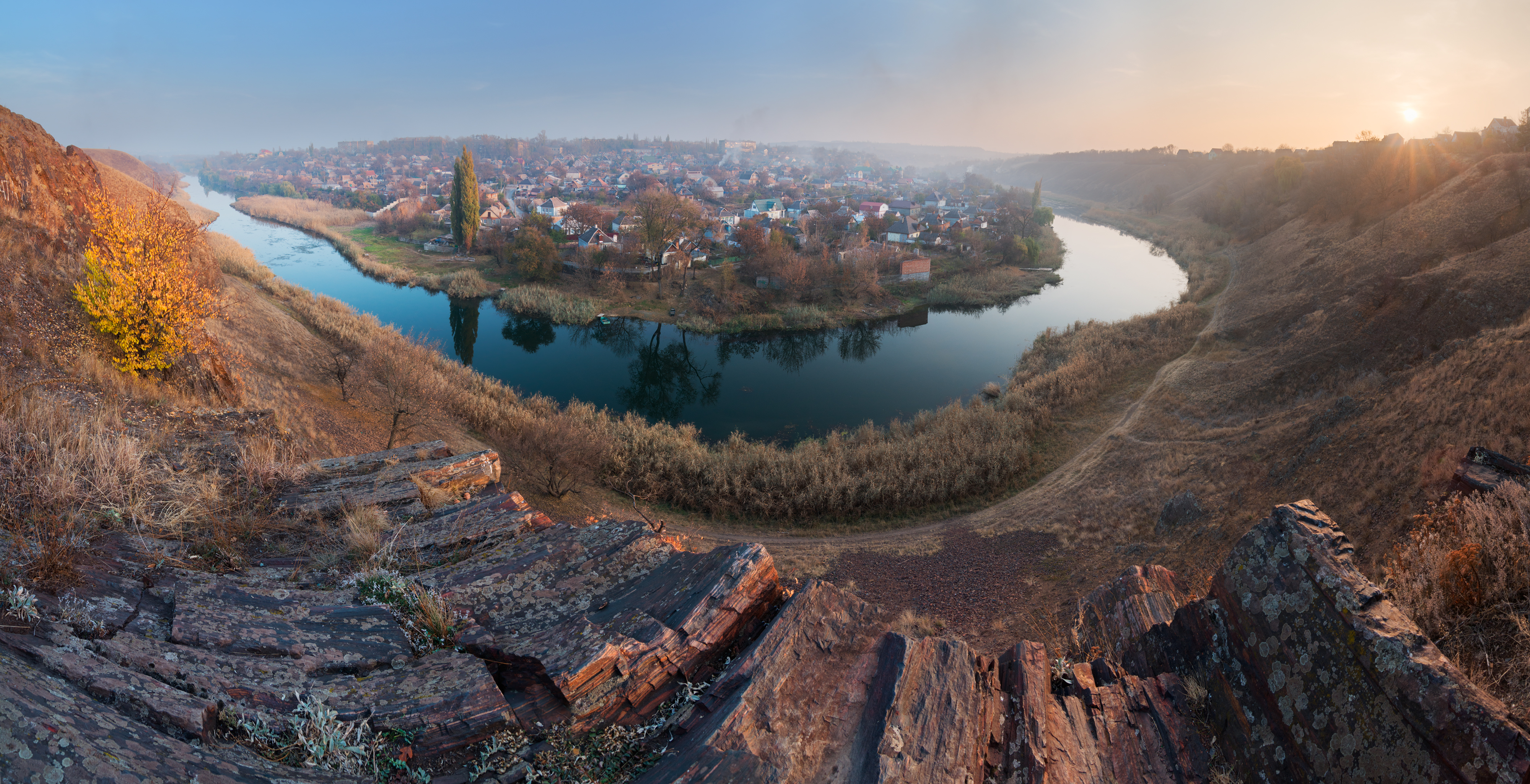 View of Inhulets River from Rocks of MODR